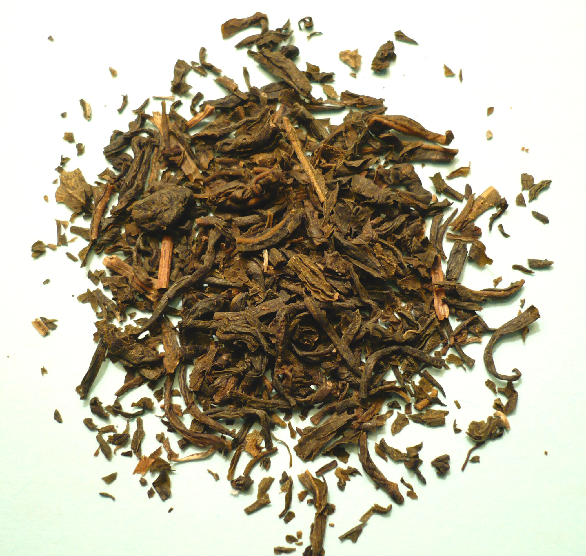 Dried Assam green tea. Photo taken in Kent, Ohio with a Panasonic Lumix digital camera (model DMC-LS75). Assam green tea purchased from Stash Tea.